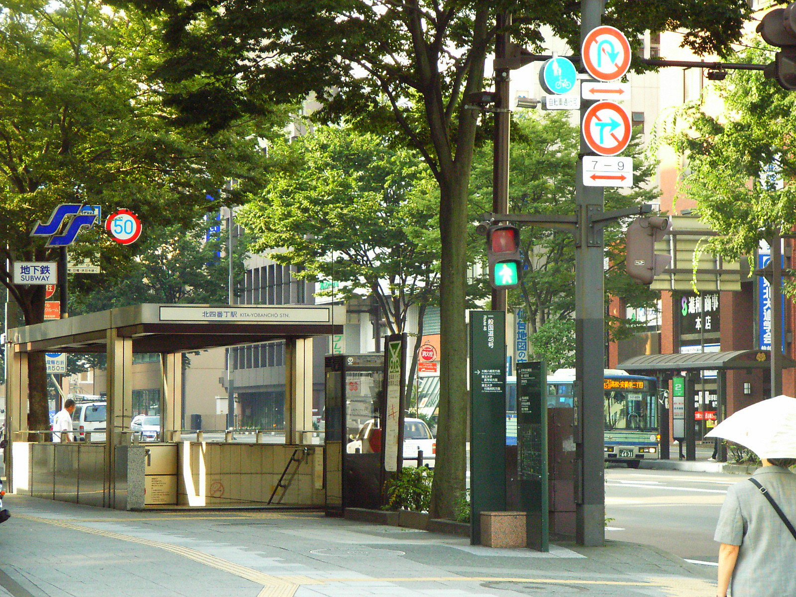 Kitayobanchō Station of the Sendai City Subway. Sendai, Miyagi prefecture, Japan.